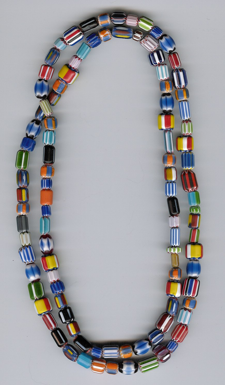 beads by me